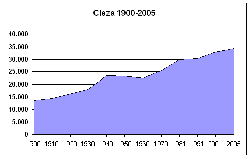 Cieza's population, Murcia, Spain, (1900-2005). Own work, given to PD. Source: Instituto Nacional de Estadística.